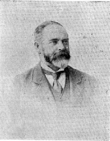 Portrait of William Wilson McCardle from The Cyclopedia of New Zealand.